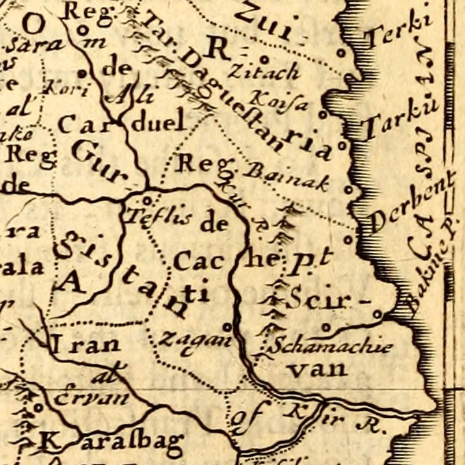 A fragment of the 1693 map focused on the eastern Georgian Kingdom of Kakheti. The map "Georgia & Armenia & Comania" from page 375 of "Geography rectified, or, A description of the world in all its kingdoms, provinces, countries, islands, cities, towns, seas, rivers, bayes, capes, ports : their ancient and present names, inhabitants, situations, histories, customs, governments, &c. : as also their commodities, coins, weights, and measures, compared with those at London : illustrated with seventy six maps : the whole work performed according to the more accurate observations and discoveries of modern authors" by Robert Morden (London, Printed for R. Morden and T. Cockerill).